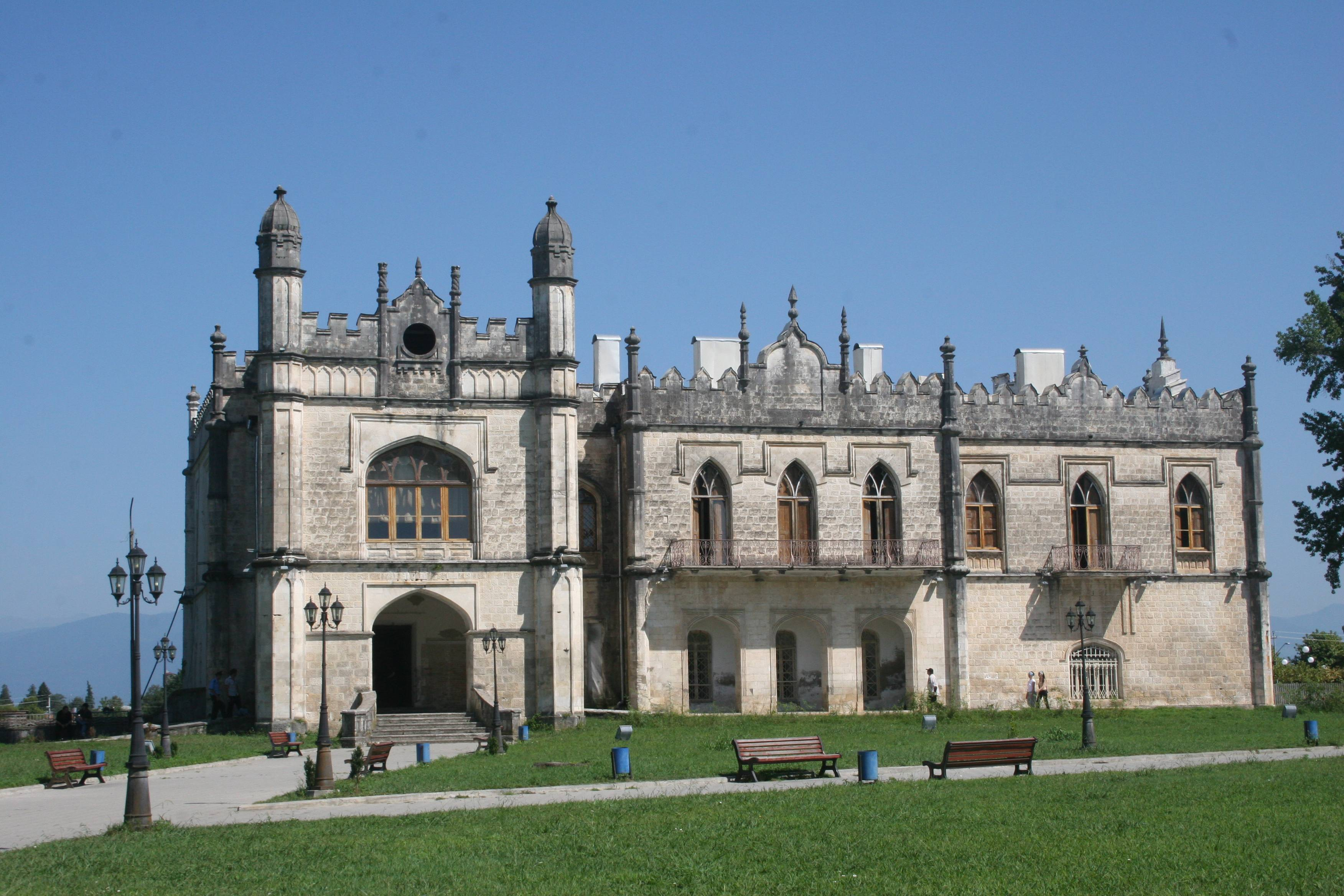 Palace-Museum of the House of Dadiani in Zugdidi, Georgia